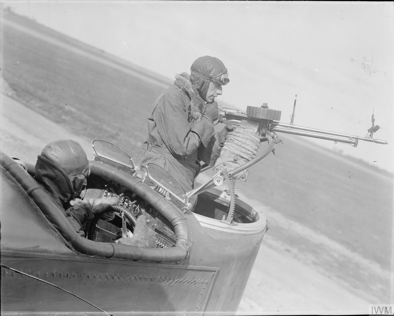 The Royal Flying Corps on the Western Front, 1914-1918 The observer and pilot in a Handley Page bomber: the former in the nose, equipped with a Lewis gun on a Scarff ring and the latter in his cockpit just in rear of front observer, it is fitted with two sets of controls. Near Cressy, 25 September 1918.